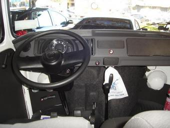 Picture of the Brazilian version of the Vw Type 2, '06 model, watercooled. In detail the new interior.